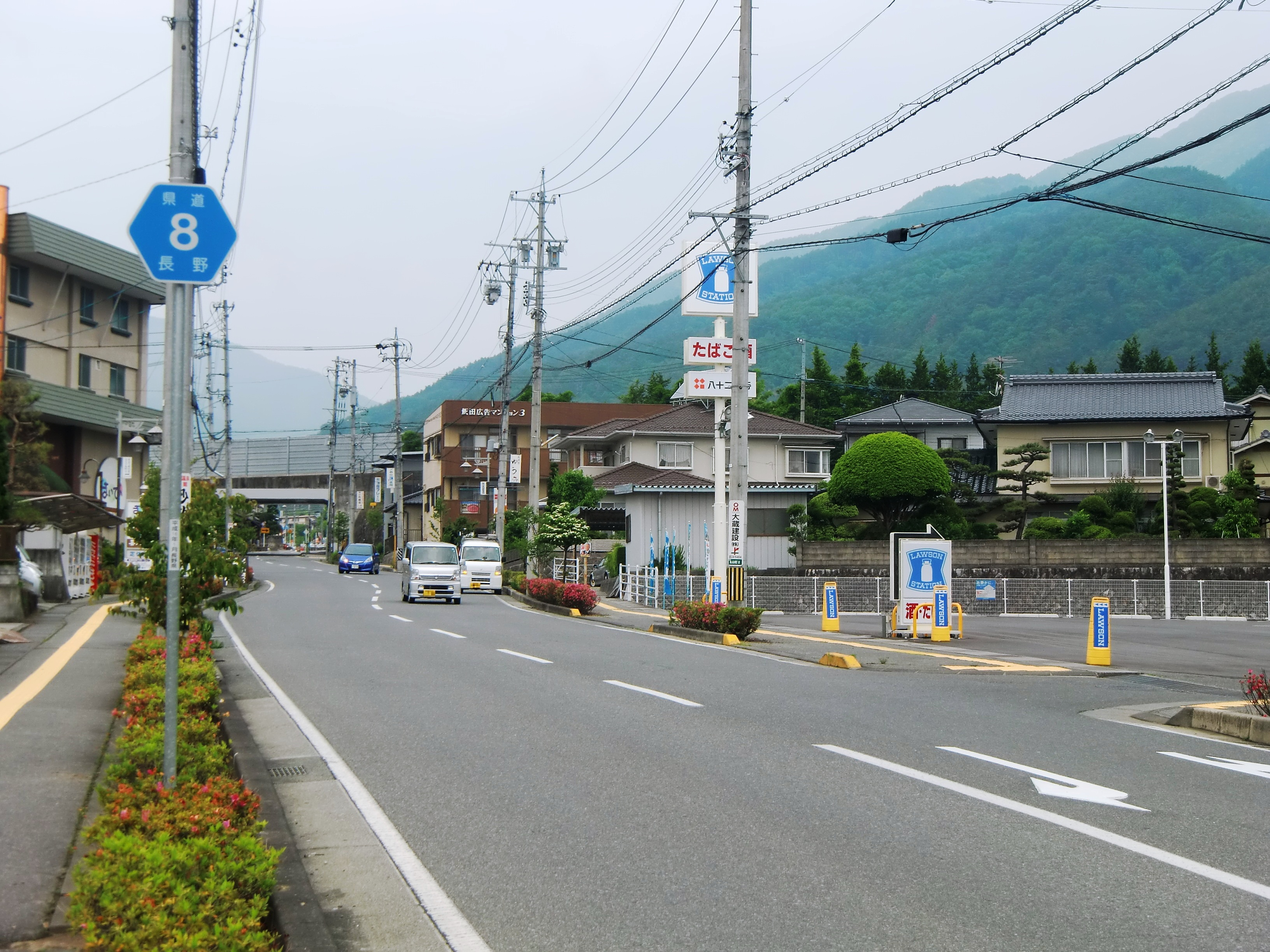 The Nagano Prefectural Road Route 8 (Iida-Nagiso Line) in Hakusan-cho, Iida City